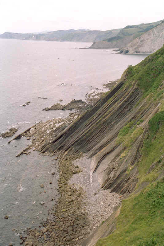 Cliffed coast with intermittent wave-cut platform near Deba and Zumaia, western Pyrenees, Basque Country, Spain. The rocks in this area represent a flysch series of Cretaceous to Tertiary age.